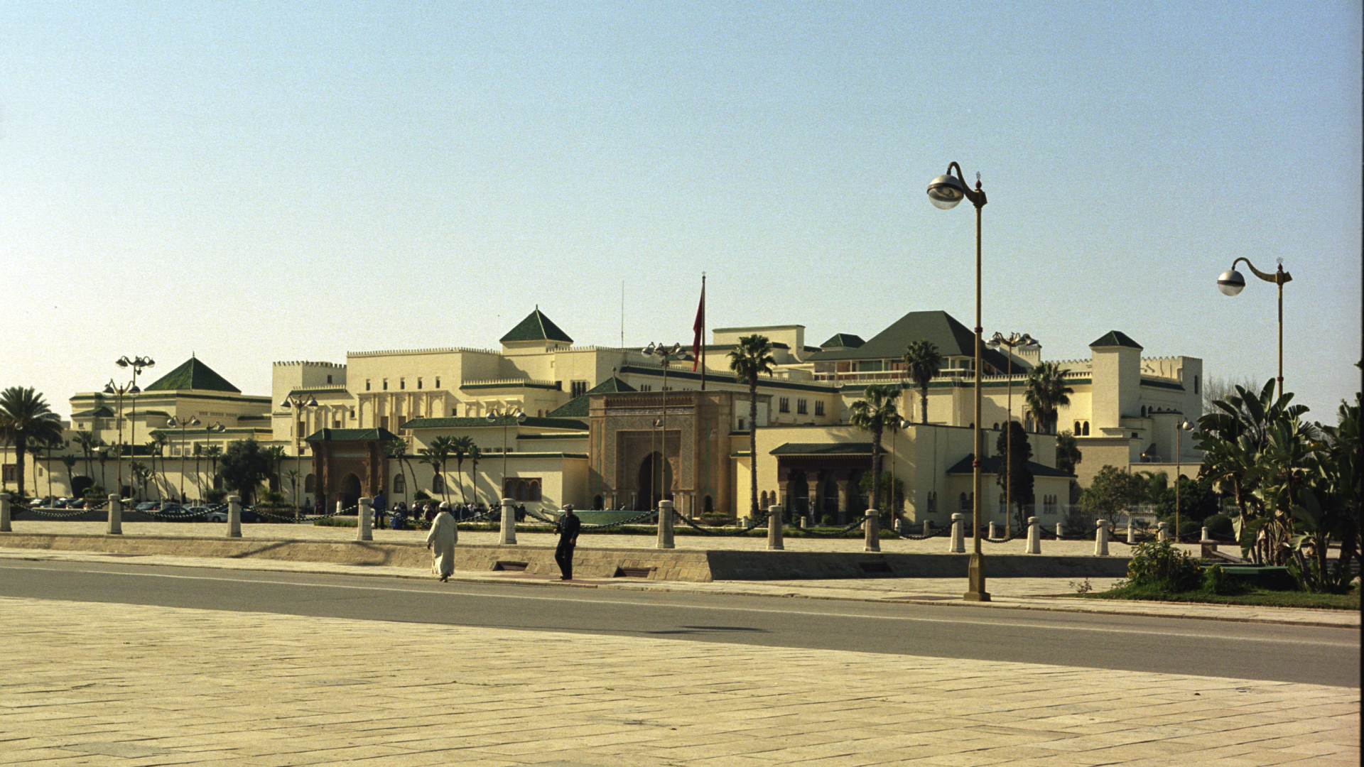 Rabat. King's Palace